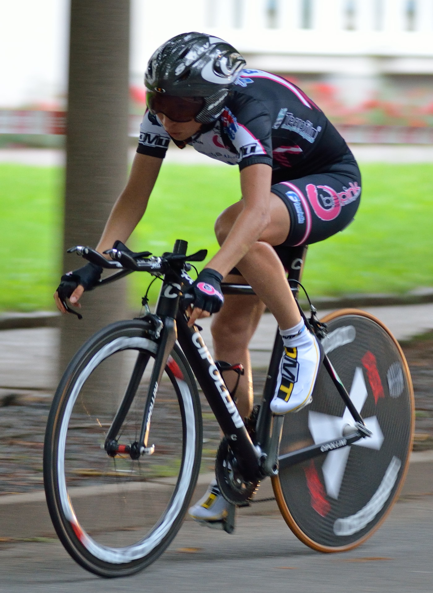 Julija Wiktorowna Martissowa from the Be Pink team during the Women's Tour of Thuringia 2012 in Zwickau, Germany.